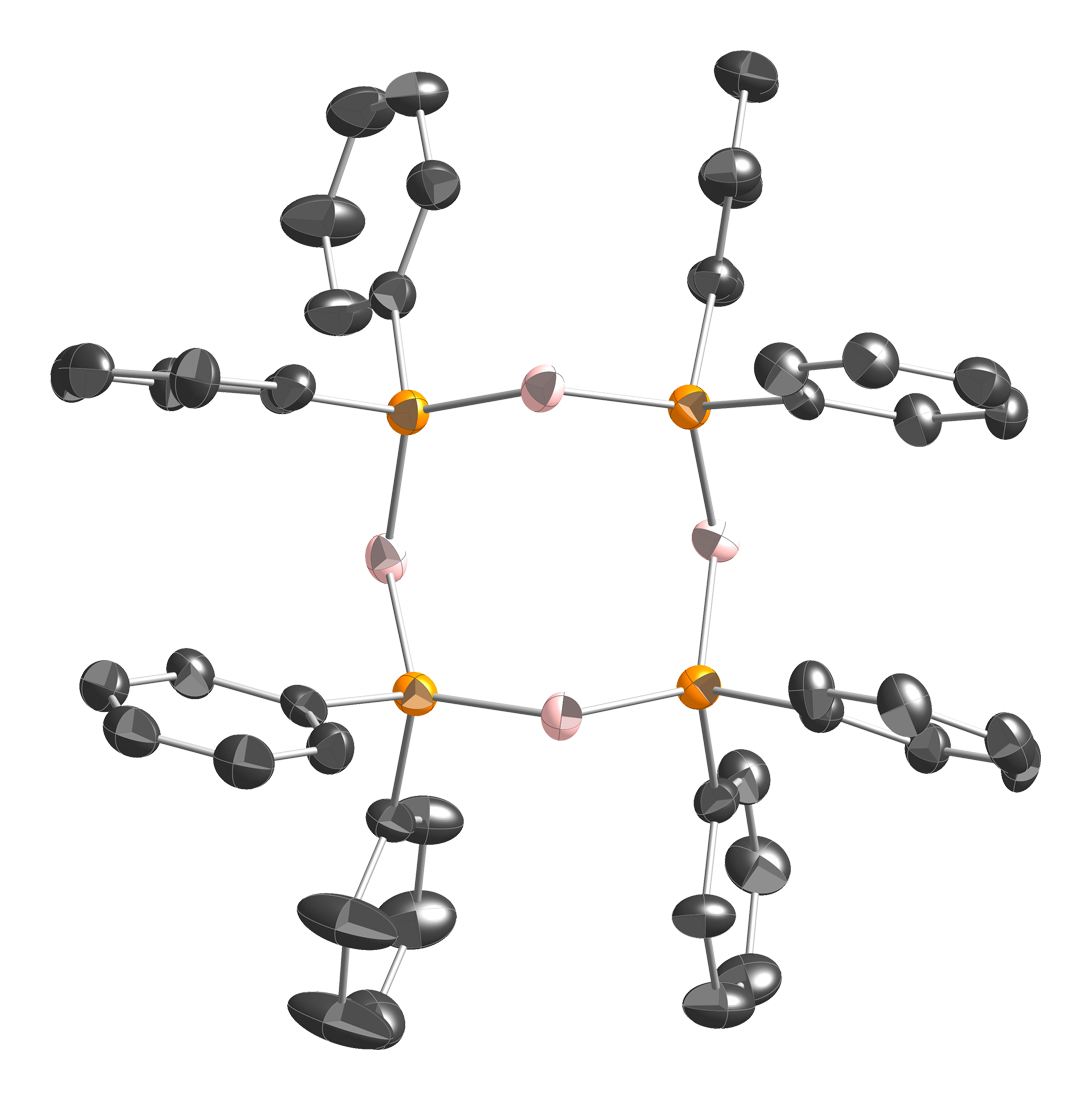 Thermal ellipsoid model the octaphenylcyclotetraphosphinoborane molecule, [Ph2P-BH2]4, as found in the crystal structure. Octaphenylcyclotetraphosphinoborane, CAS # 89695-42-1, is the cyclic tetramer of diphenylphosphinoborane, Ph2P-BH2. The thermal ellipsoids are drawn at the 50% probability level. Single-crystal X-ray diffraction data from J. Am. Chem. Soc. (2000) 122, 6669-6678 Model constructed and image generated in CrystalMaker 8.1. Interactive Jmol 3D model available at